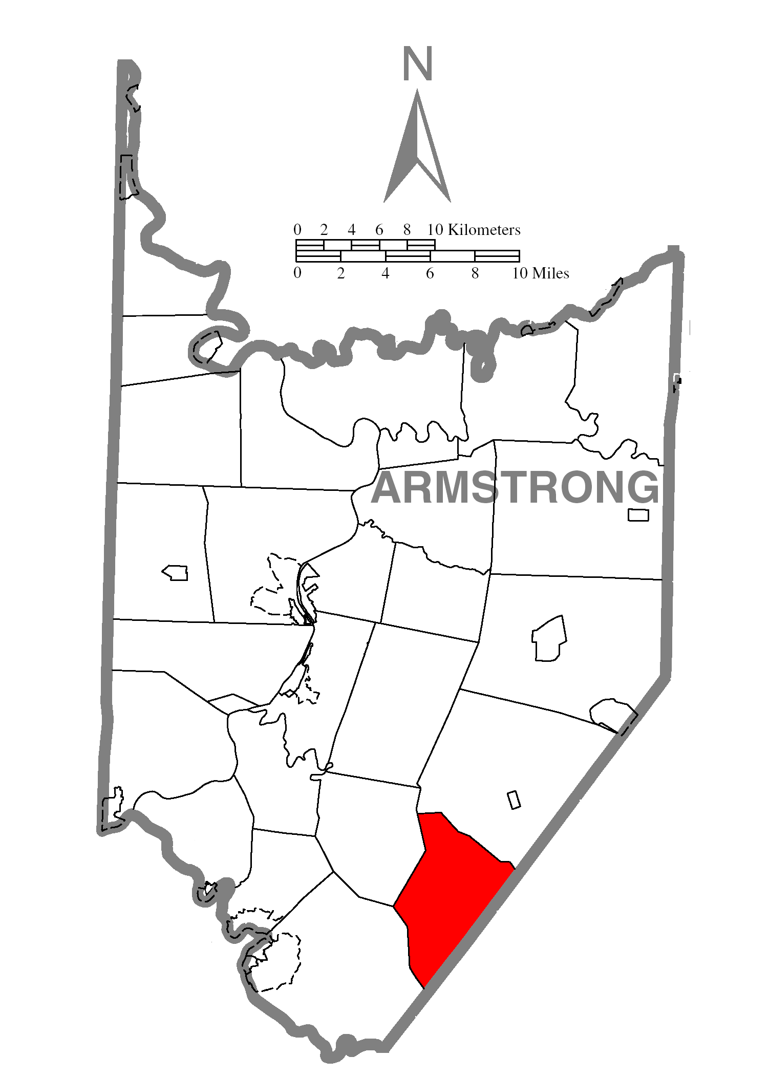 A map of Armstrong County showing South Bend Township, Pennsylvania (alternate) highlighted on the map.